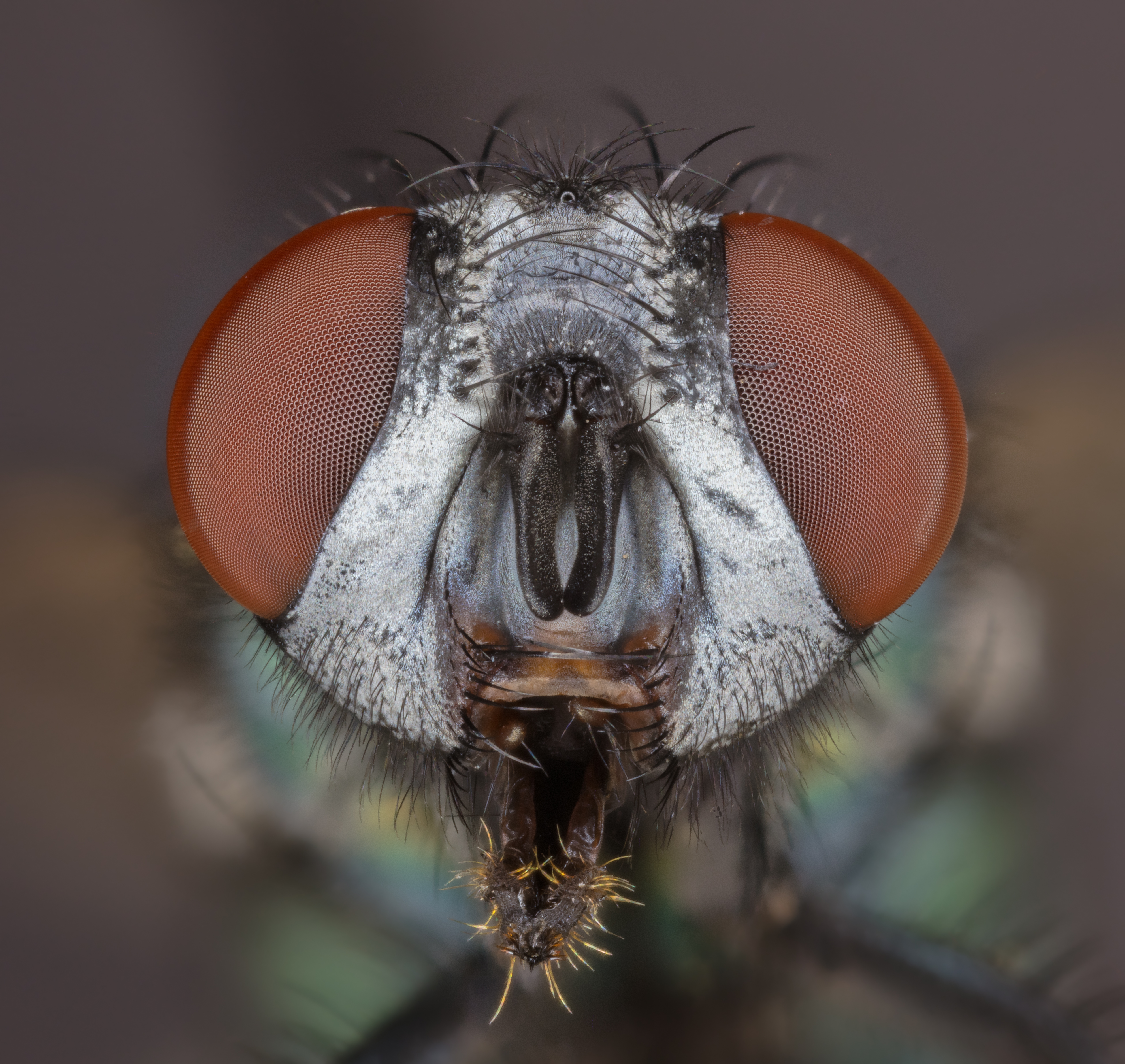 Common green bottle fly (Lucilia sericata), Hartelholz, Munich, Germany